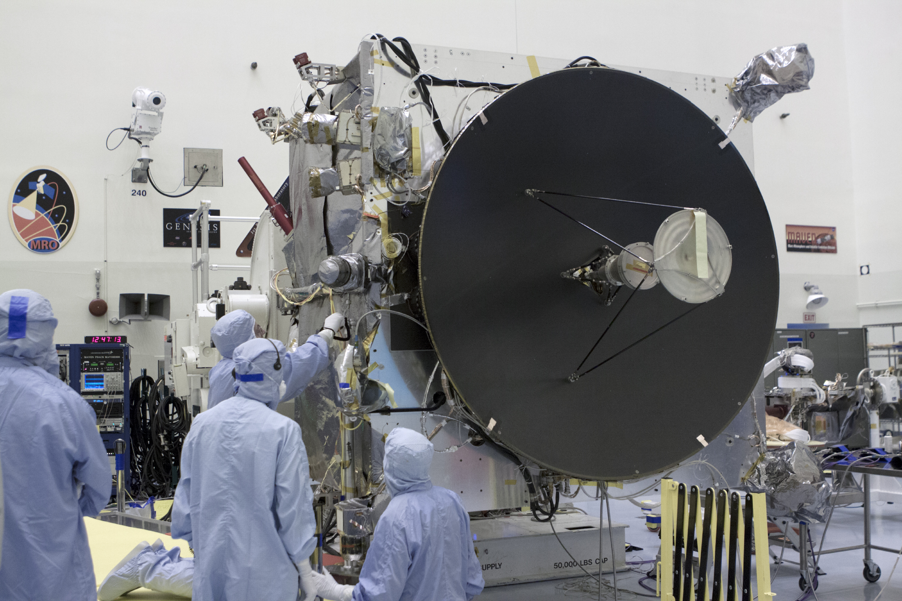 Engineers work on the MAVEN spacecraft, which is dominated by the high-gain antenna that is crucial to communications with NASA's Deep Space Network.